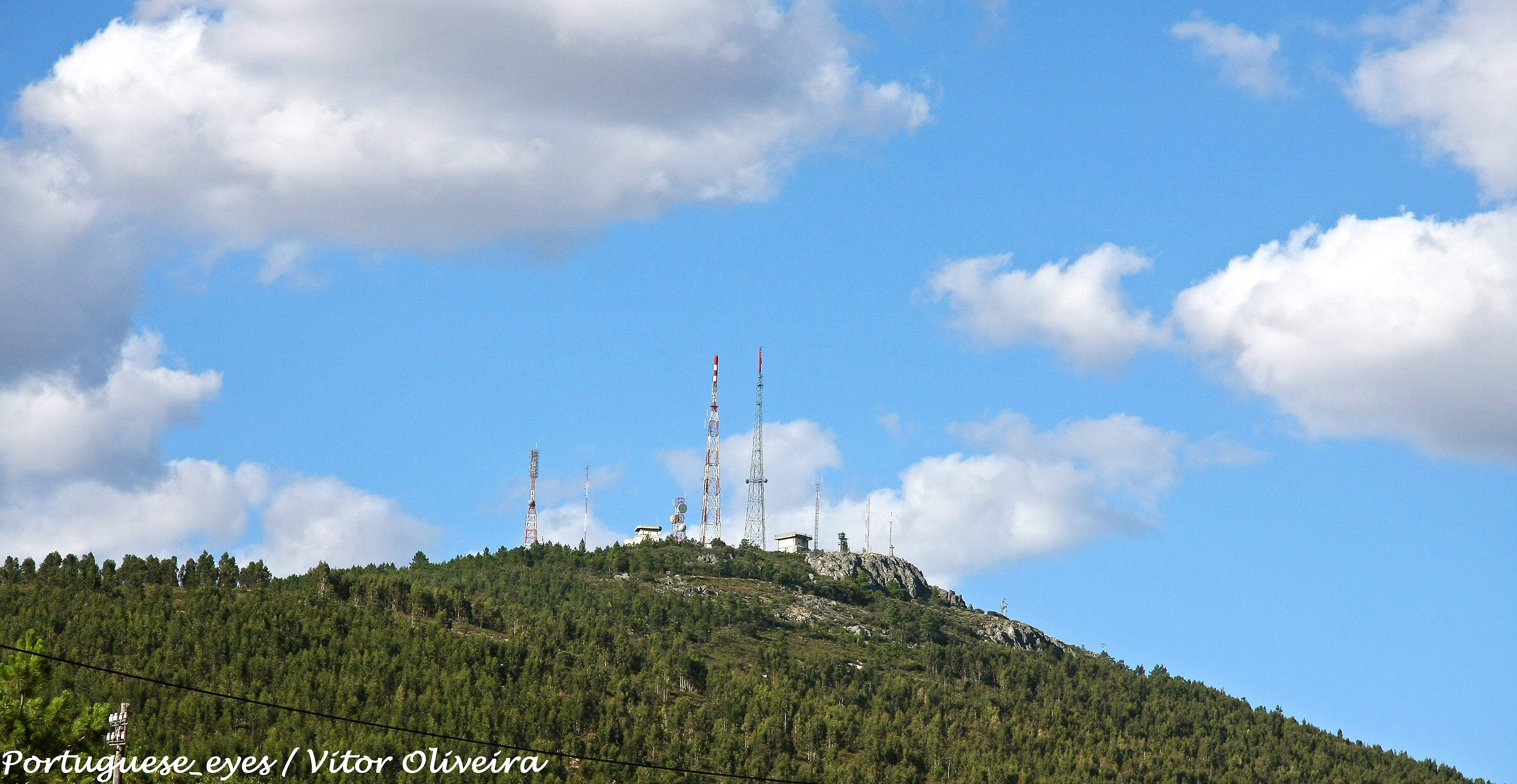 See where this picture was taken. [?]